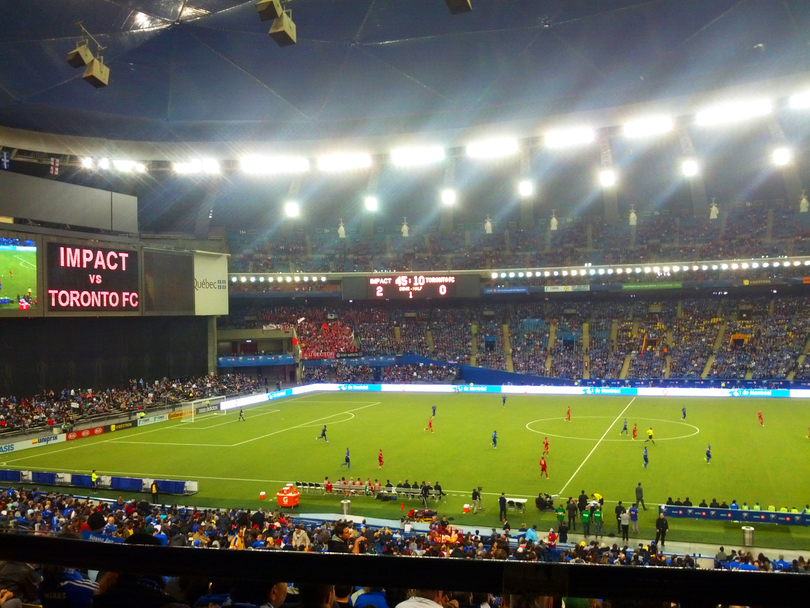 Major League Soccer match between Montreal Impact and Toronto FC on 16 March 2013 at the Olympic Stadium in Montreal.